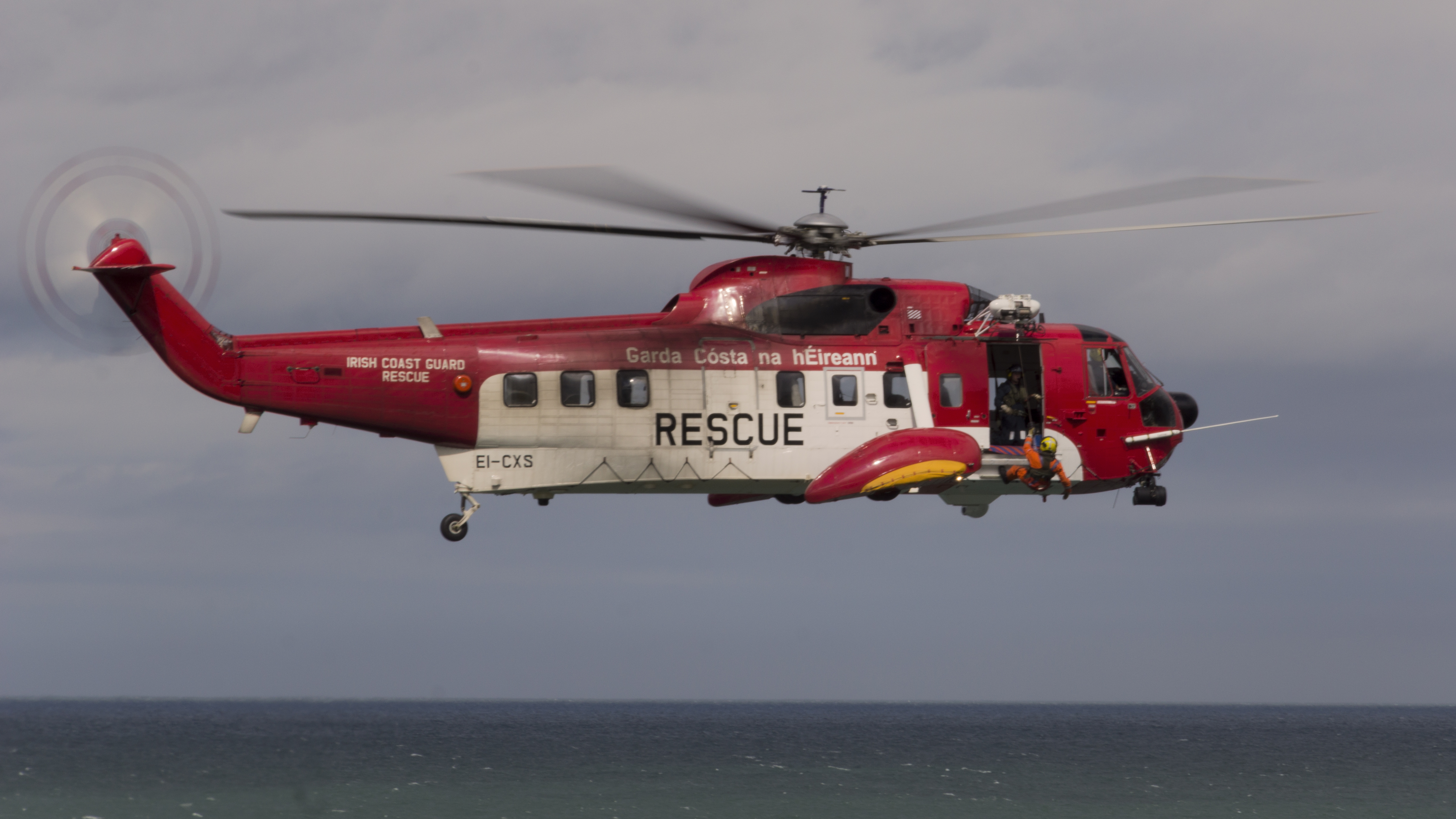 Bray Air Display 2012 - Sikorsky S-61N Helicopter